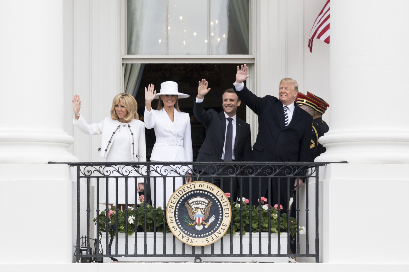 The arrival ceremony of the President of France and Mrs. Macron (Official White House Photo by Andrea Hanks)